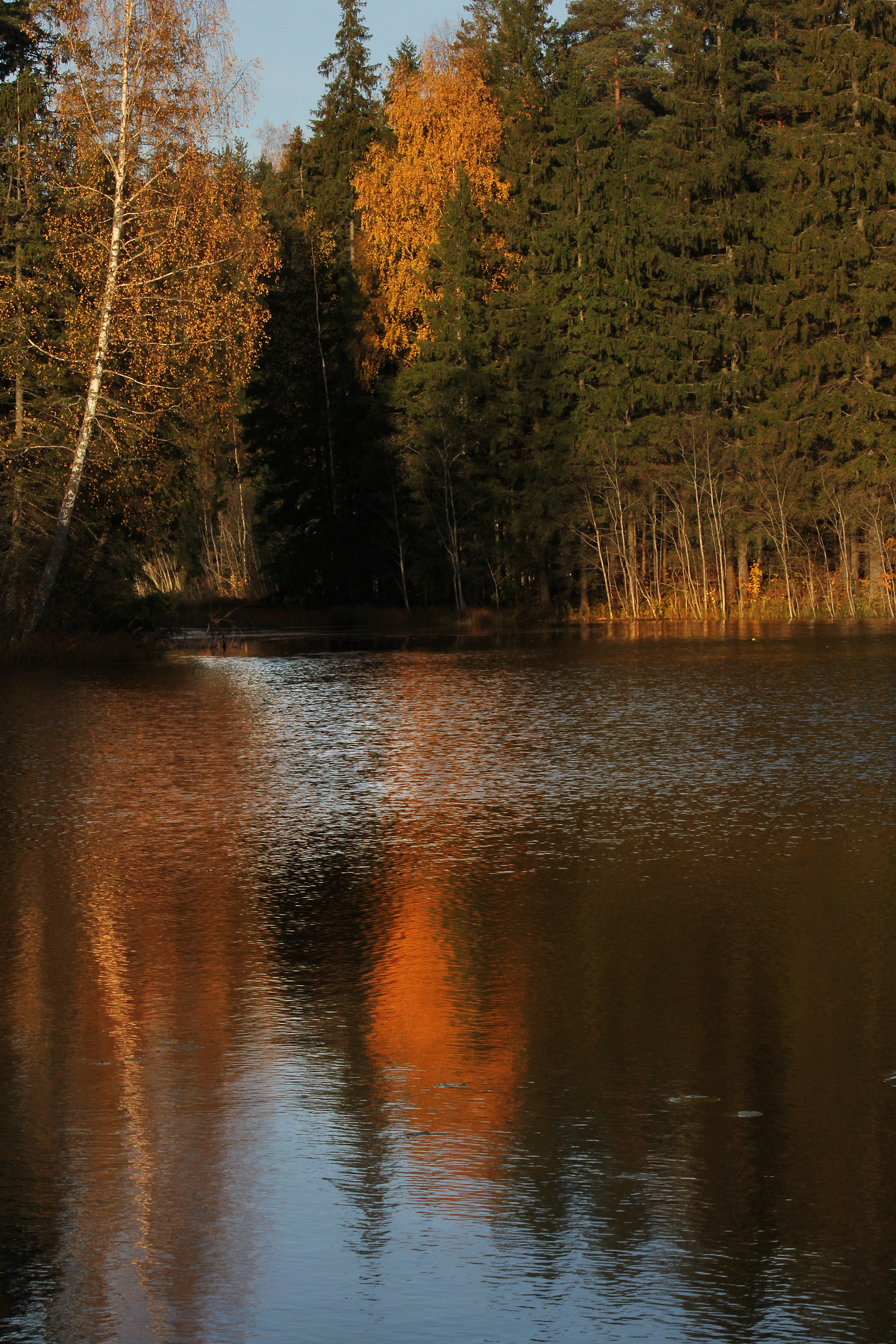 Lake Perajärve in Rõuge Parish